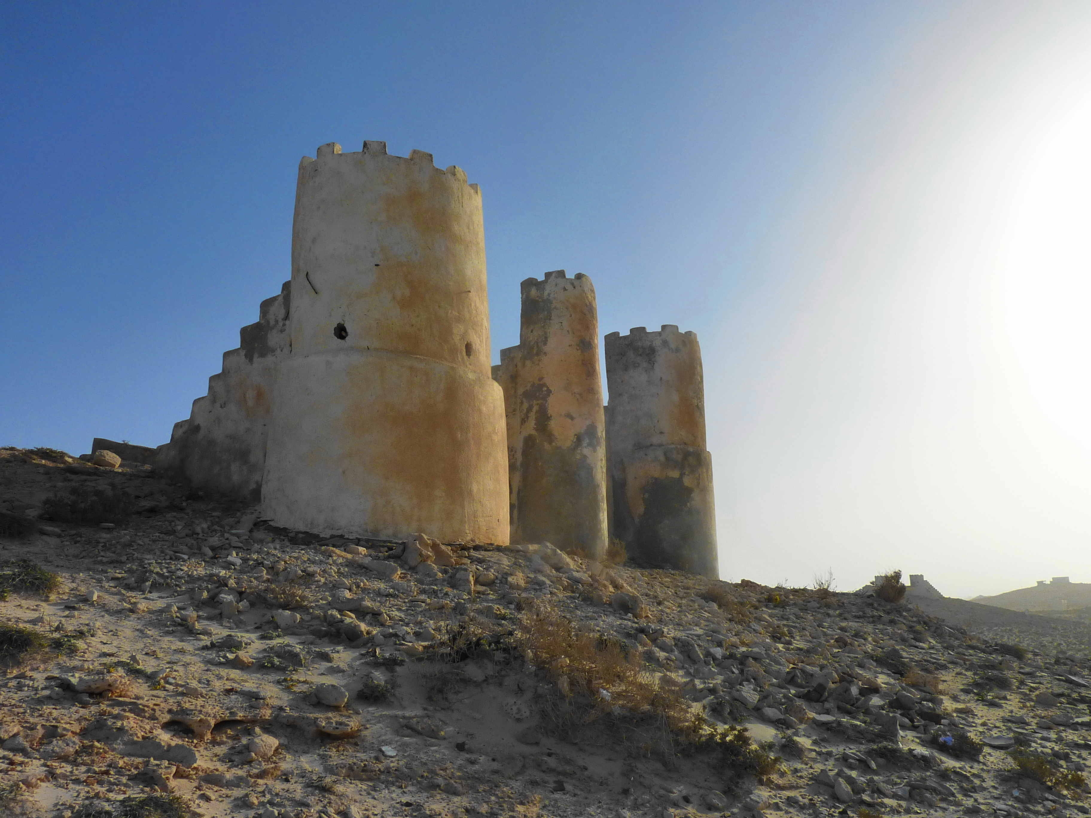 Marsa Matruh, Qism Moursy Matrouh, Matrouh Governorate, Egypt